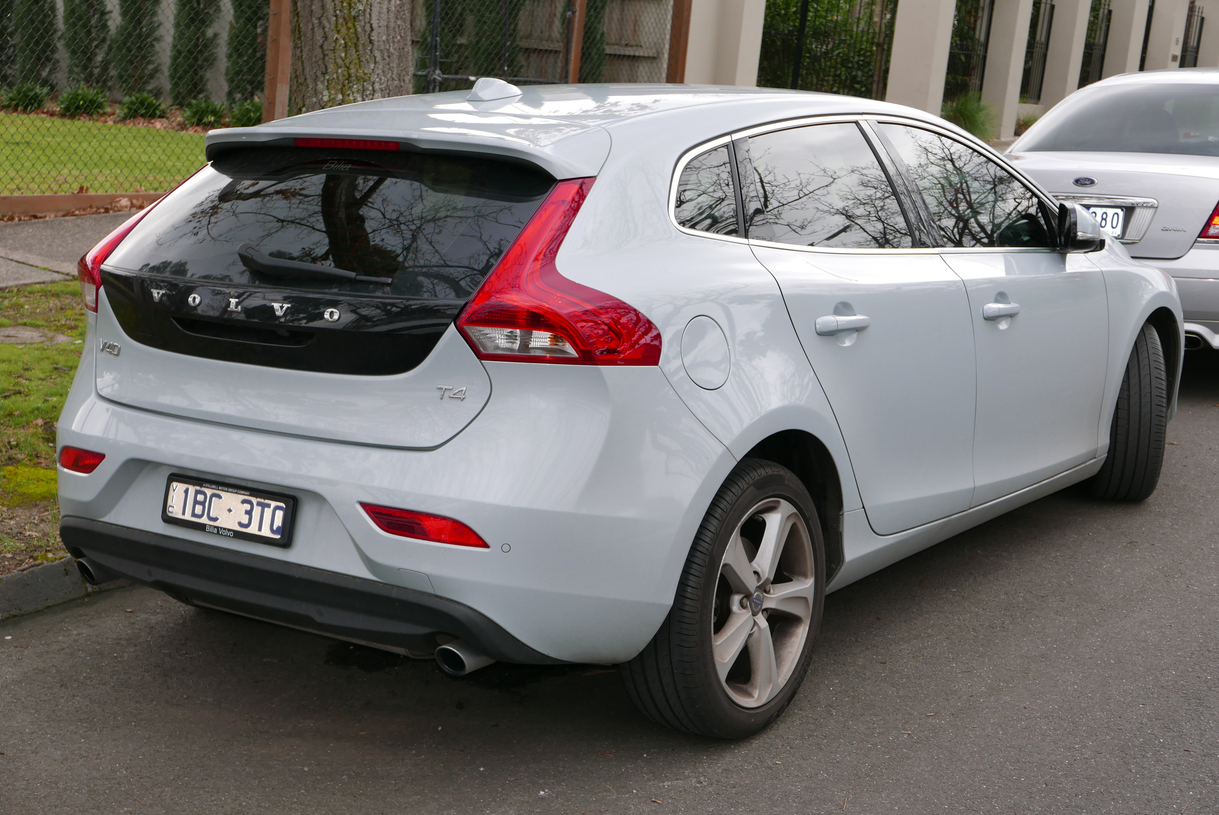 2014 Volvo V40 (MY14) T4 Luxury hatchback. Photographed in Balwyn, Victoria, Australia. Vehicle registration enquiry resultsJurisdictionVictoriaRegistration1BC3TQChassis codeYV1MV4250E2120656Engine code4690956Compliance date2014-04Year of manufacture2014